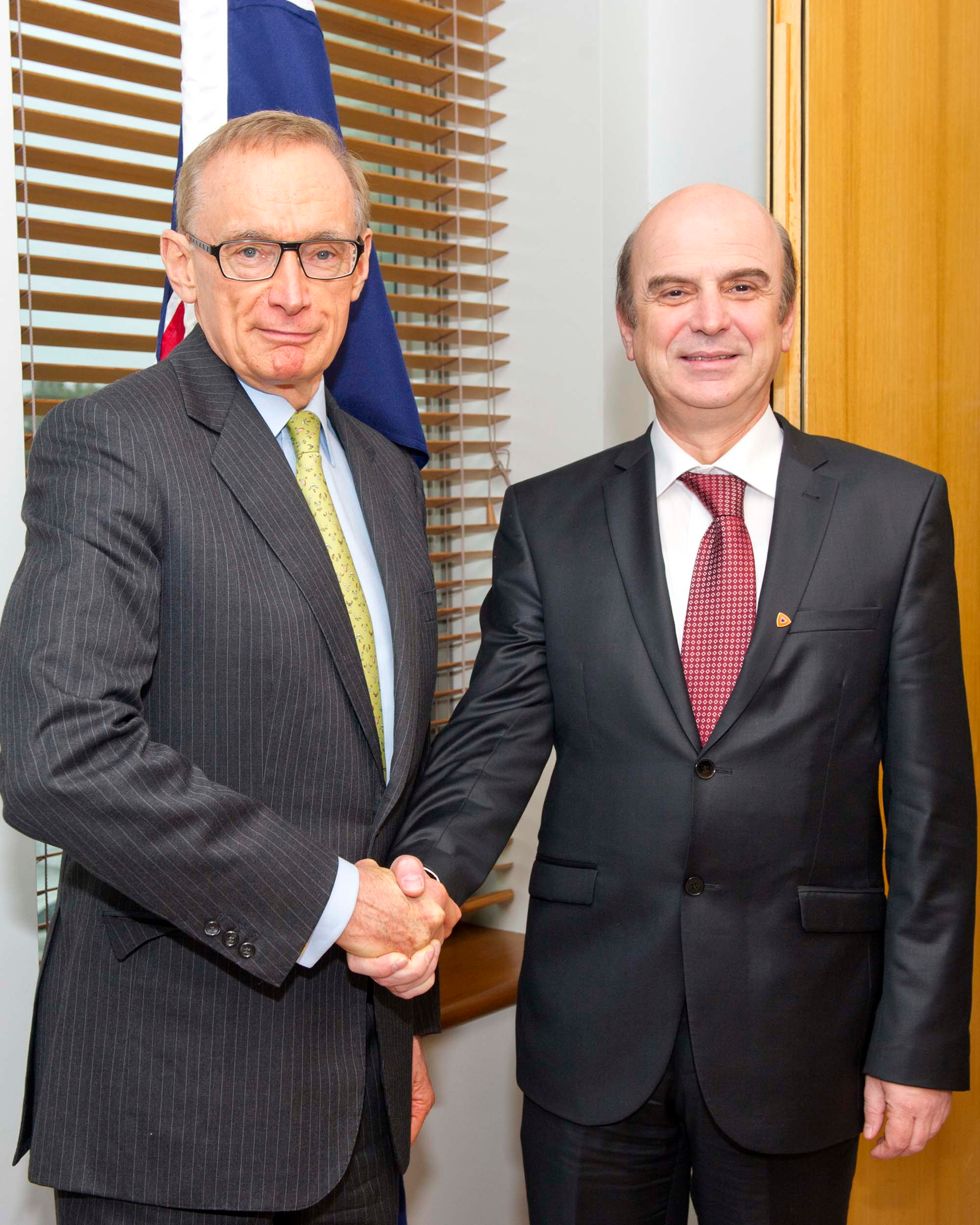 Foreign Minister Carr meets with Albanian Foreign Minister Edmond Panariti on his visit to Australia